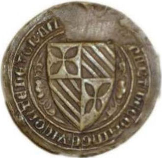 Sceau de Bernard de Comminges-Turenne (VIII of Comminges)